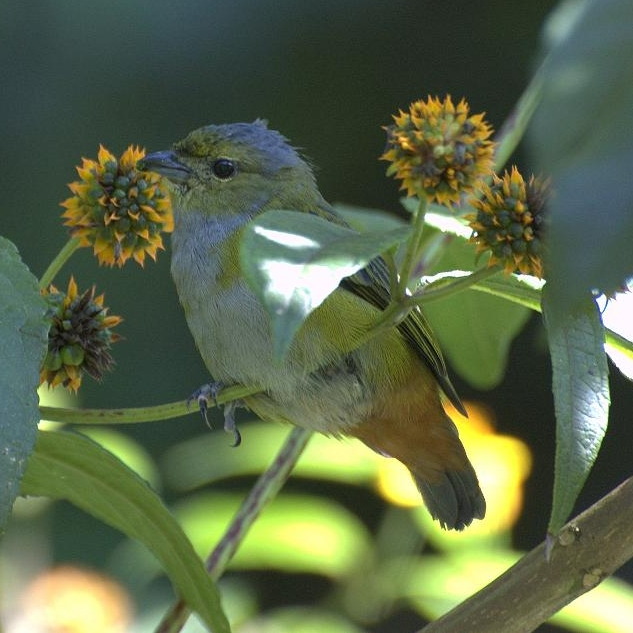 Chestnut-bellied Euphonia (Euphonia pectoralis). A female.